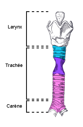 Tracheal stenosis